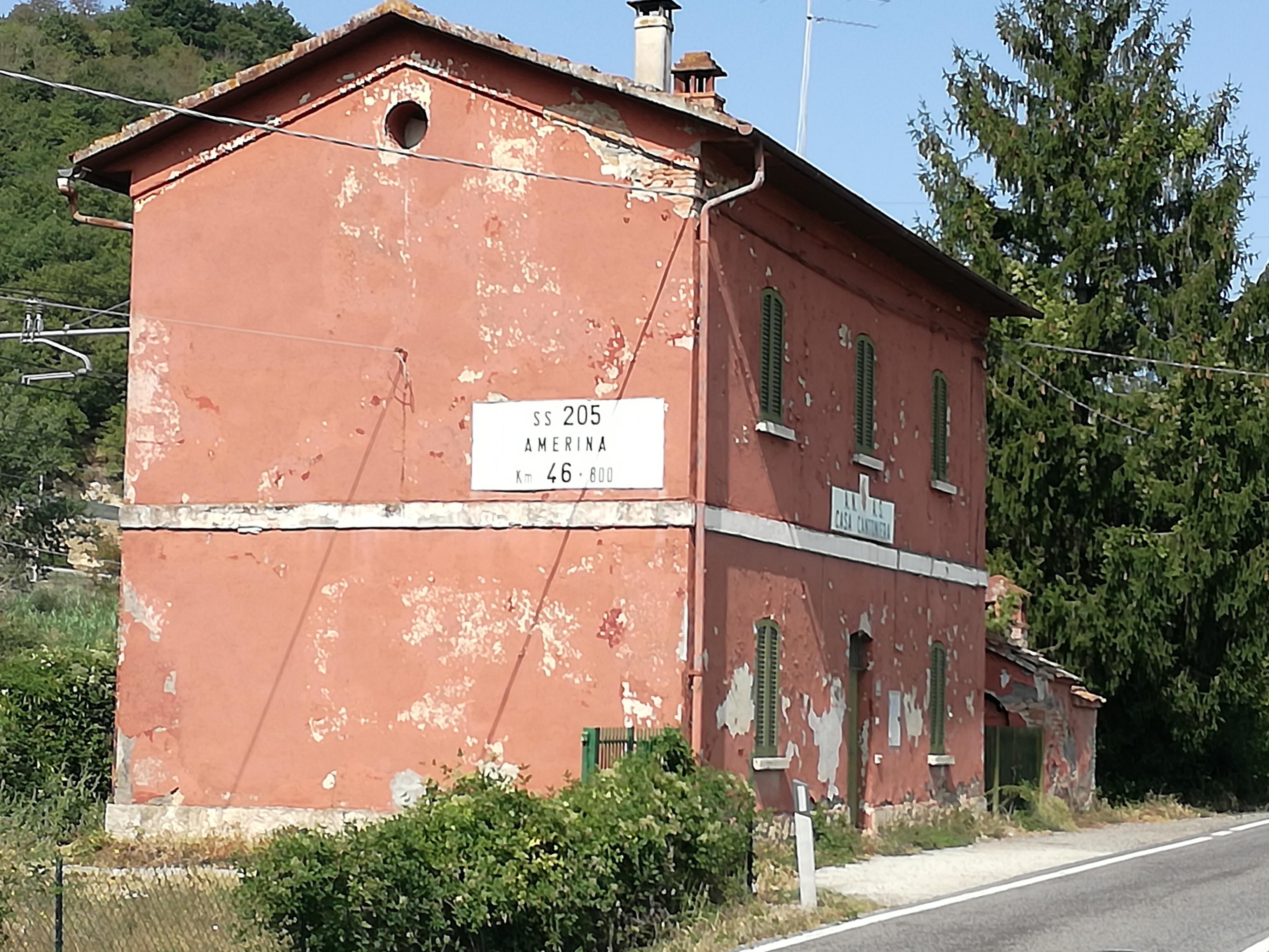 Roadkeeper house near Orvieto Scalo